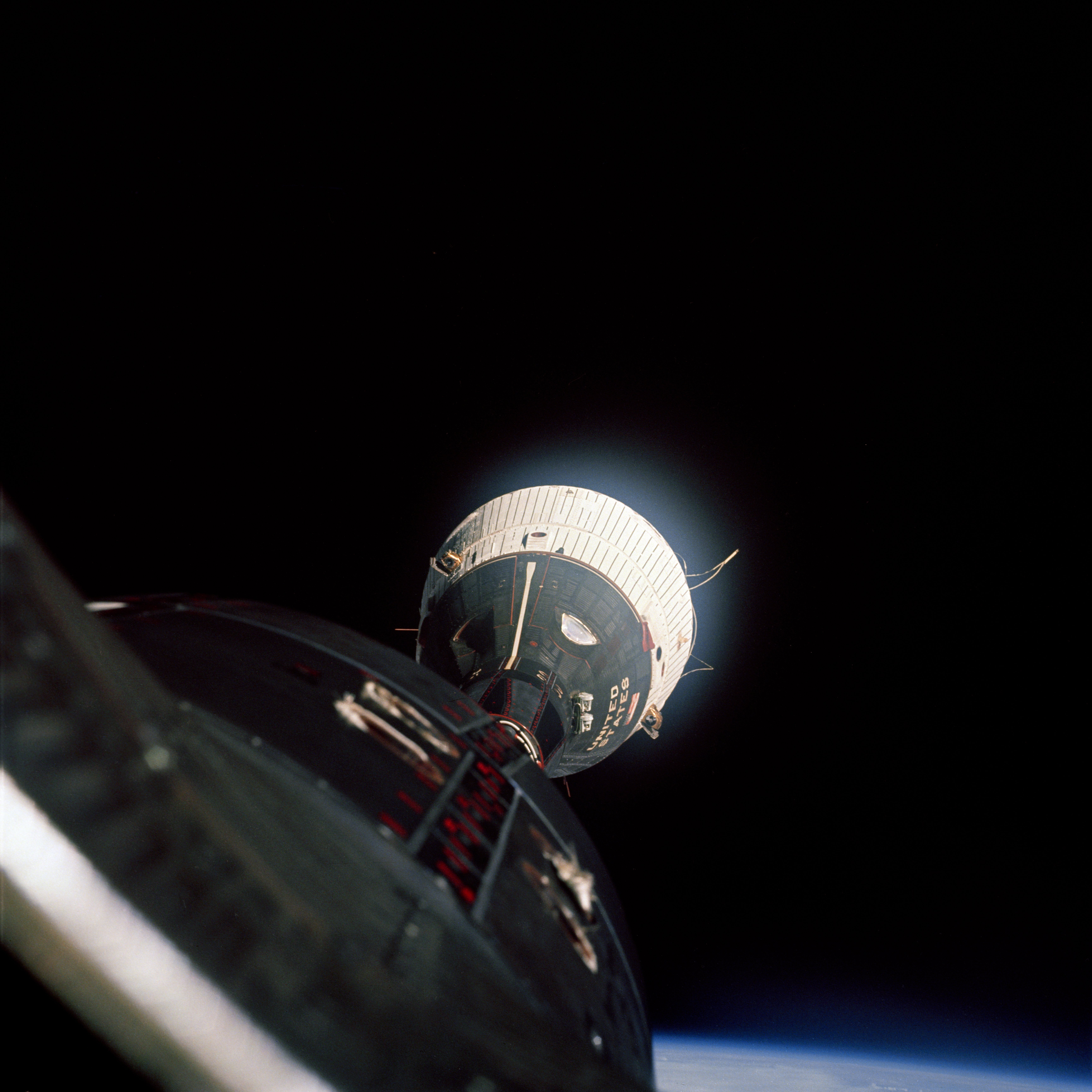 A photograph of the Gemini VII spacecraft - nose towards camera - was taken from the Gemini VI spacecraft during rendezvous and station keeping maneuvers at an altitude of 163 nautical miles during orbit no. 5, on December 15, 1965. G.E.T. time was 7:49/GMT time was 21.26. The two spacecrafts are approximately 55 feet apart. Original magazine number was GEM06-A-63171, taken with an 80mm lens. A black & white Master of this image exists. It's photo number is S65-63552.